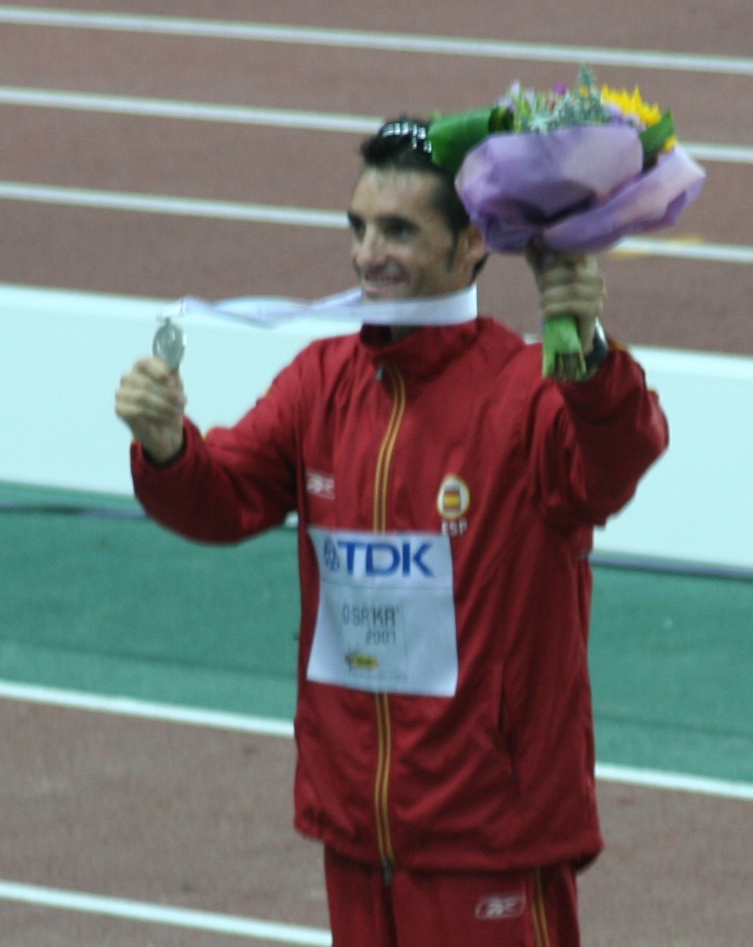 World Athletics Championships 2007 in Osaka - 20km race walking silver medallist Francisco Javier (Paquillo) Fernández (Spain) after the victory ceremony